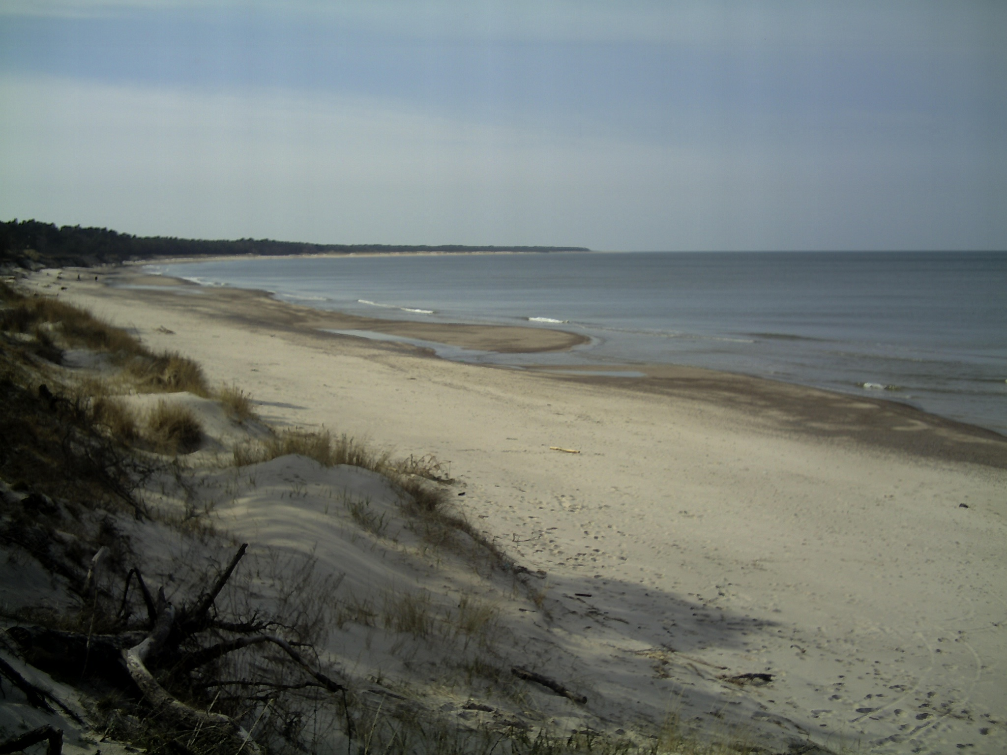 Lędowo-Osiedle, beach